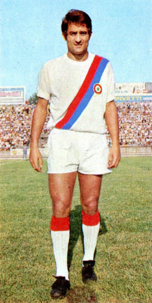 Italian footballer Francesco Rizzo with Bologna F.C. in the 1970–71 season.